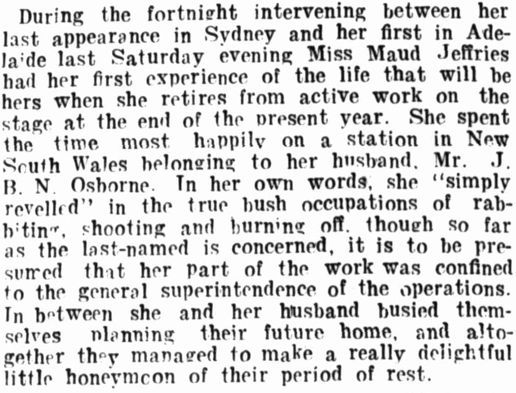 Item taken from the regular column, "Ladies' Letter", written by "Minetta", at page 92 of the (Melbourne) Punch of Thursday 20 July 1905. The American actress, Maud Evelyn Craven Jeffries (1869-1946) married James Bunbury Nott Osborne (1878-1934), a wealthy Australian grazier in 1904. She left the stage in 1906, and spent the rest of her life, in Australia, on the family property near Gundaroo, New South Wales.